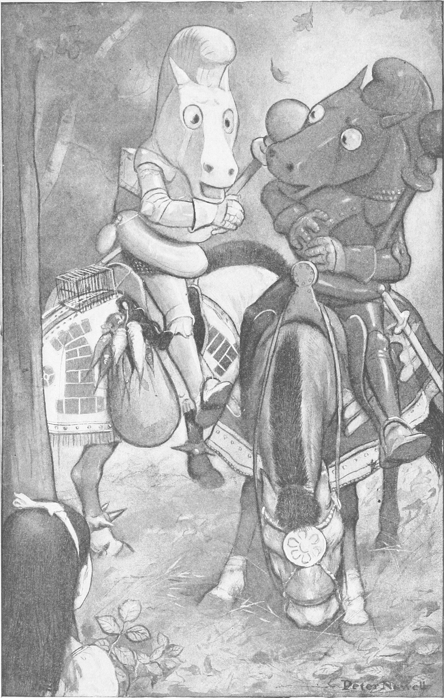 "They began banging away at each other". Illustration by Peter Newell to "Through the Looking-Glass and What Alice Found There", chapter "It's my own invention"